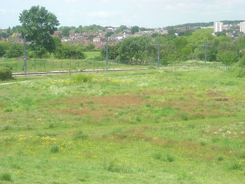 View of South Norwood Country Park